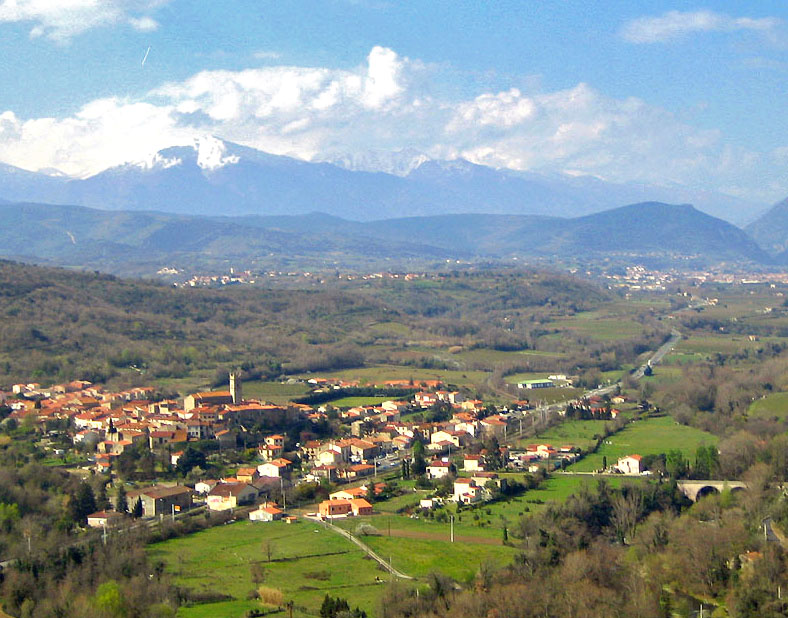 Marquixanes, county Conflent, French Catalonia.